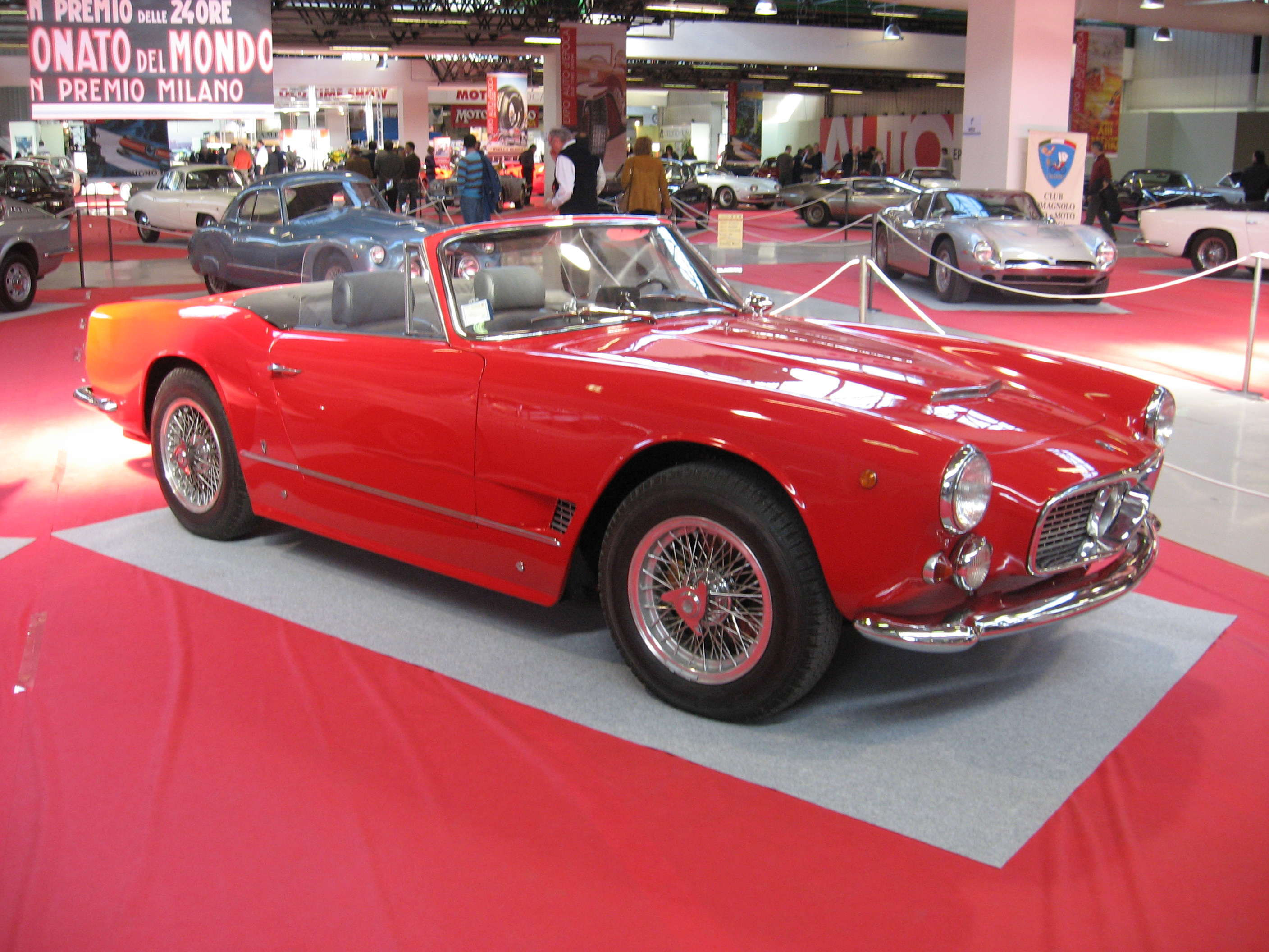 This photo shows a Maserati 3500 GT Spider. Author:Luc106 Date:18th march 2007 Place:Forlì (Italy) Event:Old Time Show I release all rights in the public domain.